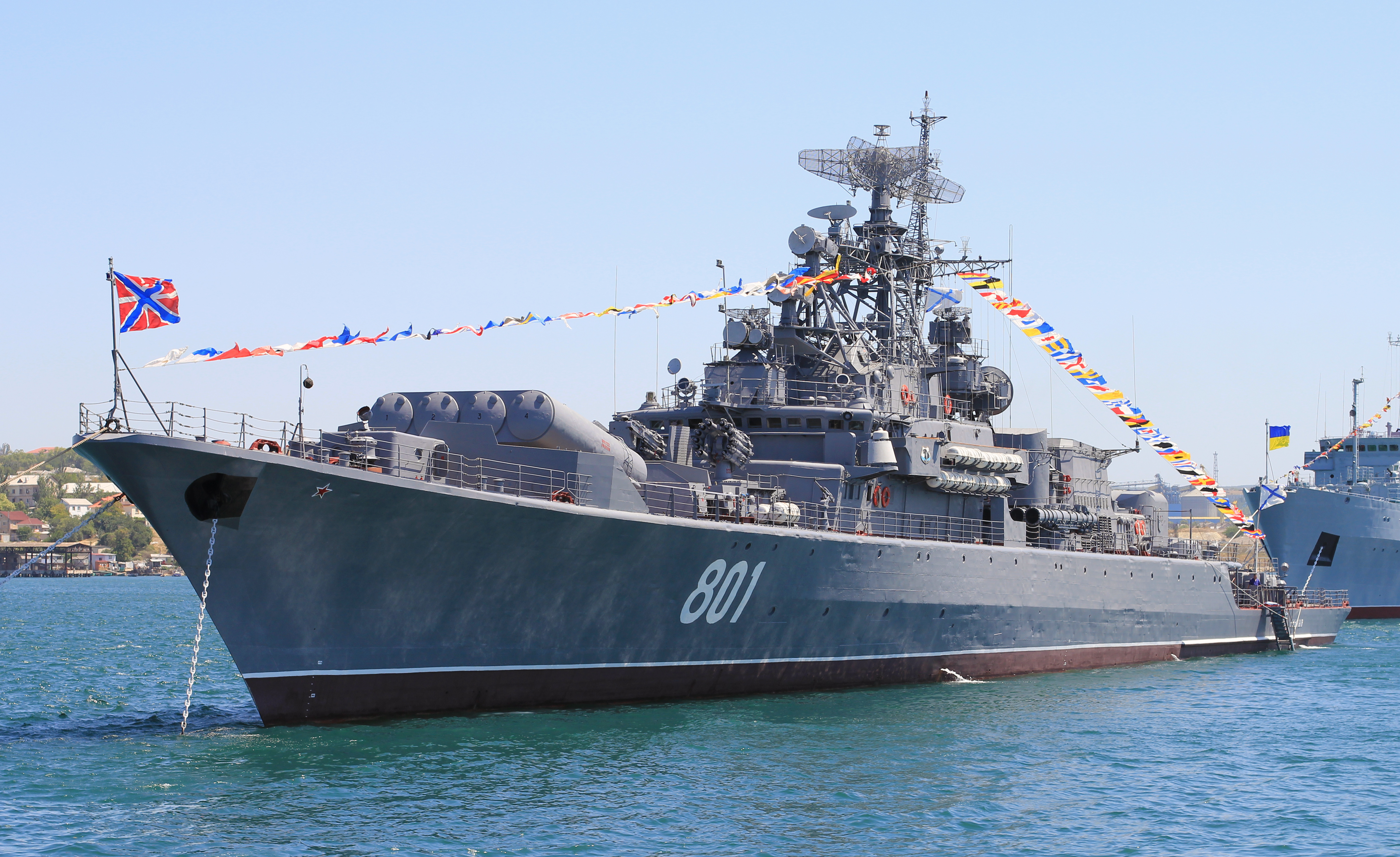 Russian frigate Ladny (Project 1135) in Sevastopol Bay.